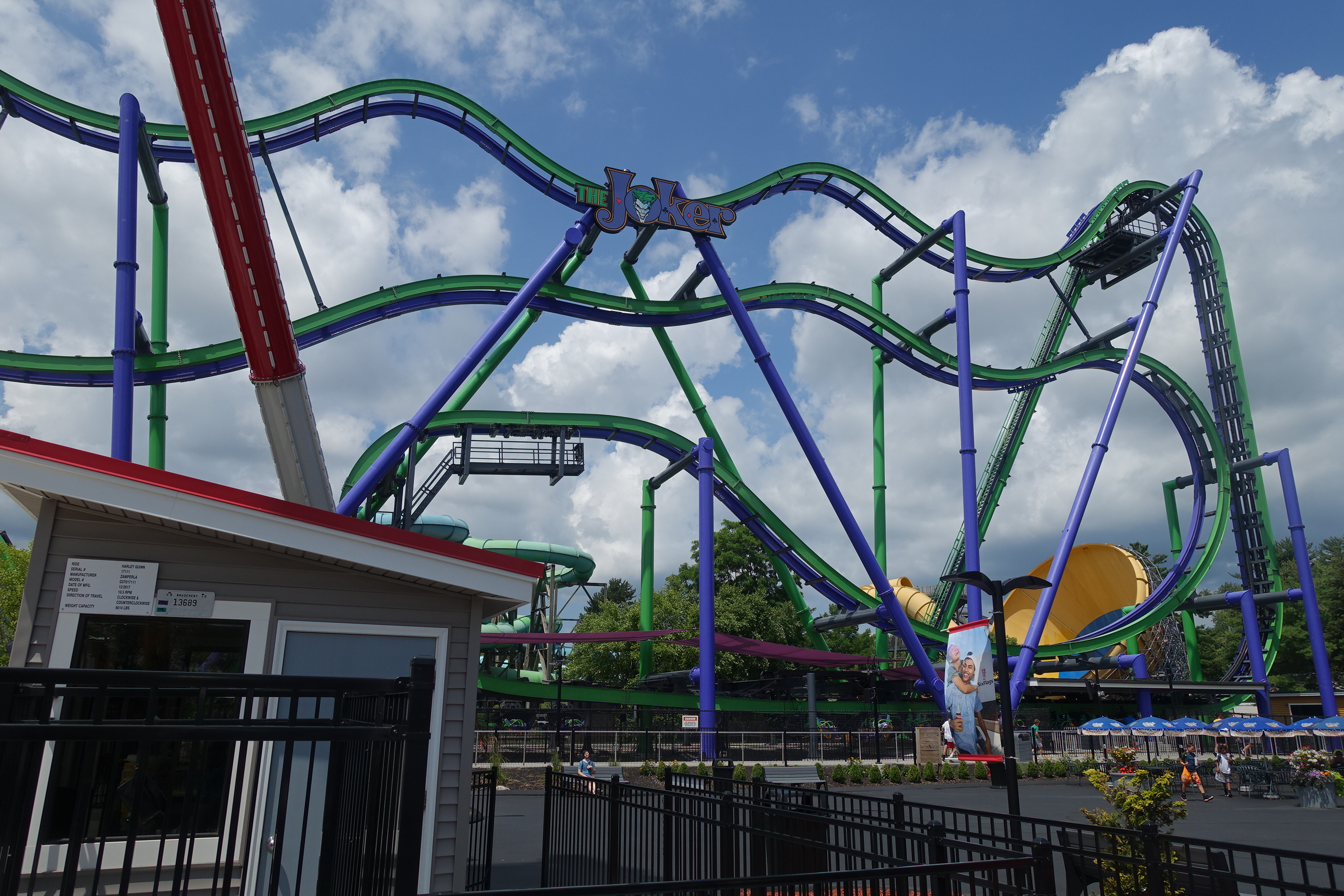 The Joker at Six Flags New EnglandSix Flags New England